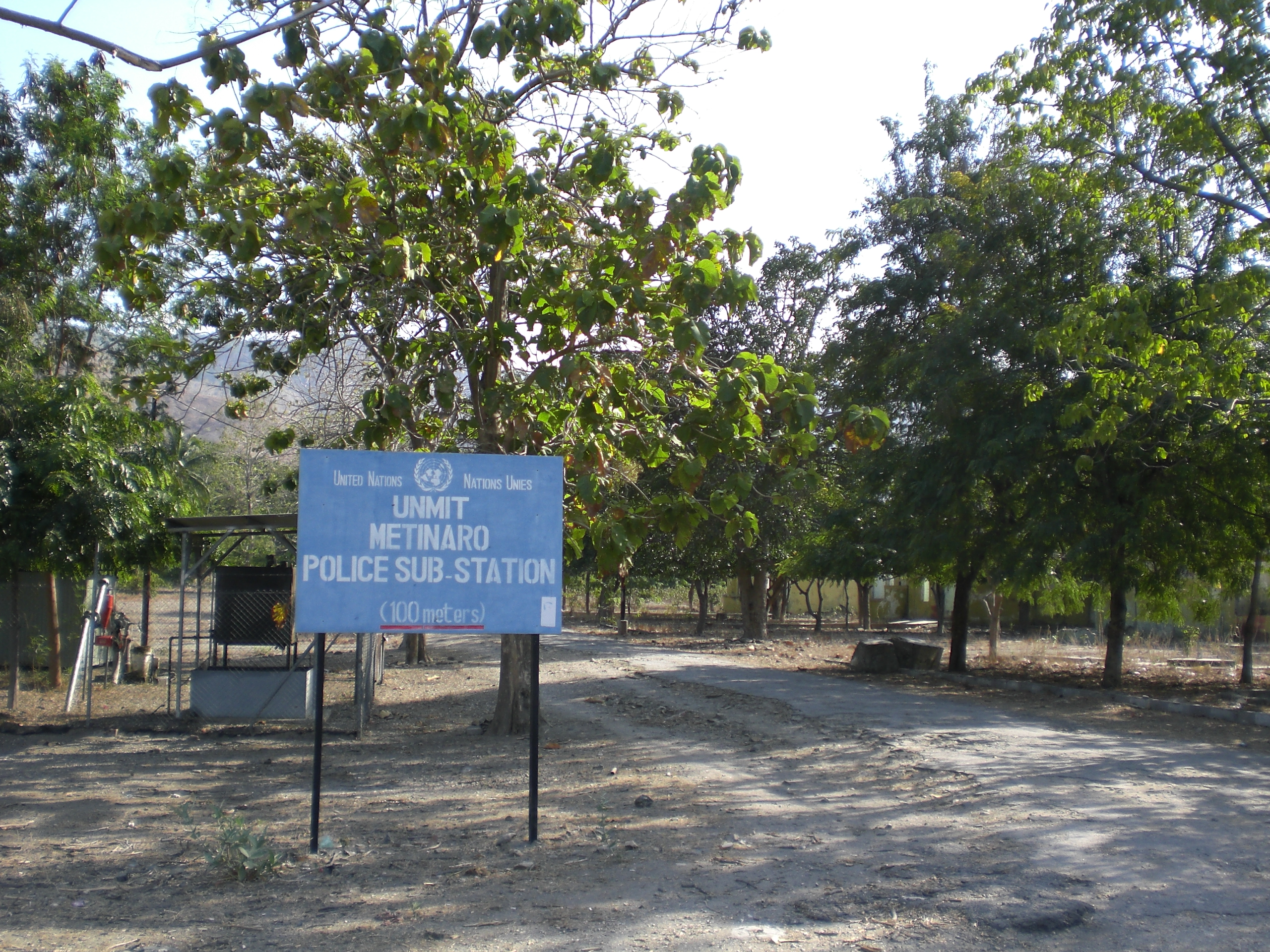 UNMIT Police Metinaro/Timor-Leste